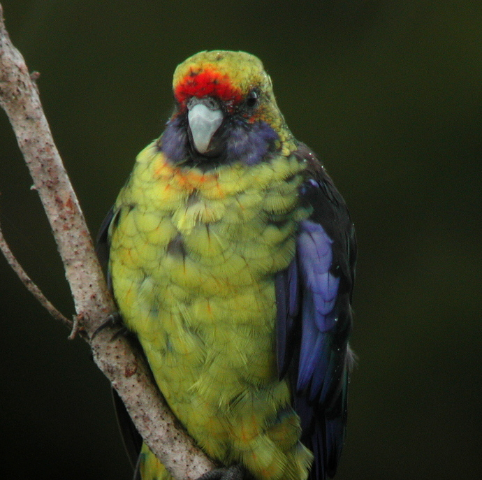 Green Rosella in Melaleuca, Tasmania.